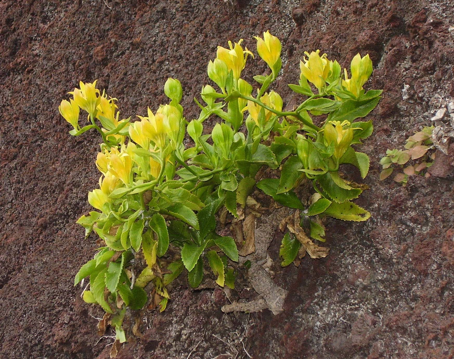 Musschia aurea blossoming photographed in the east Funchal city bay area, Madeira island, Portugal. Picture taken with an Olympus FE-110 digital camera in auto-mode and croped with Photoshop CS2 software.